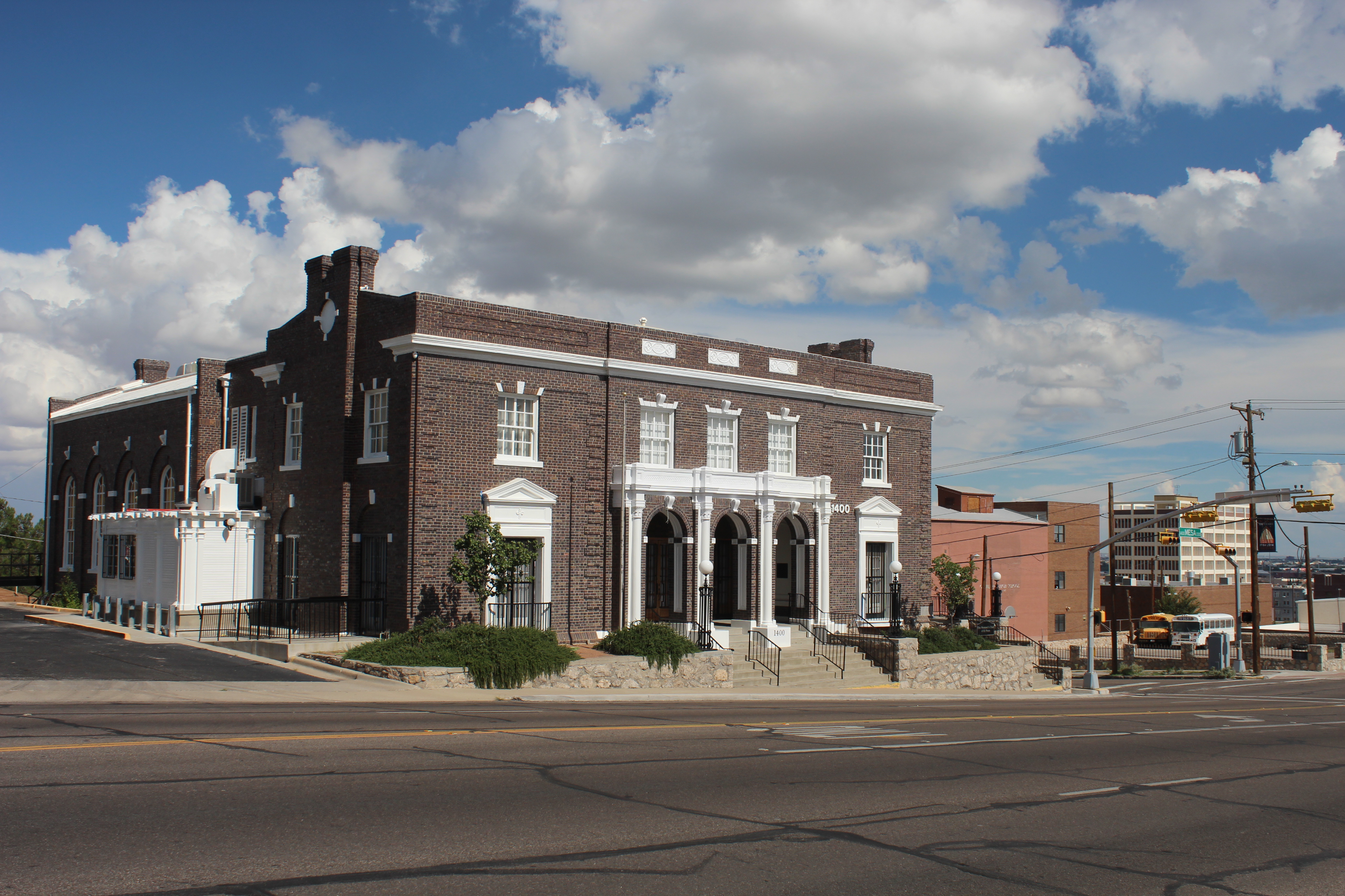 Women's Club at 1400N. Mesa & River St, El Paso Tx. Building's general view from westside.